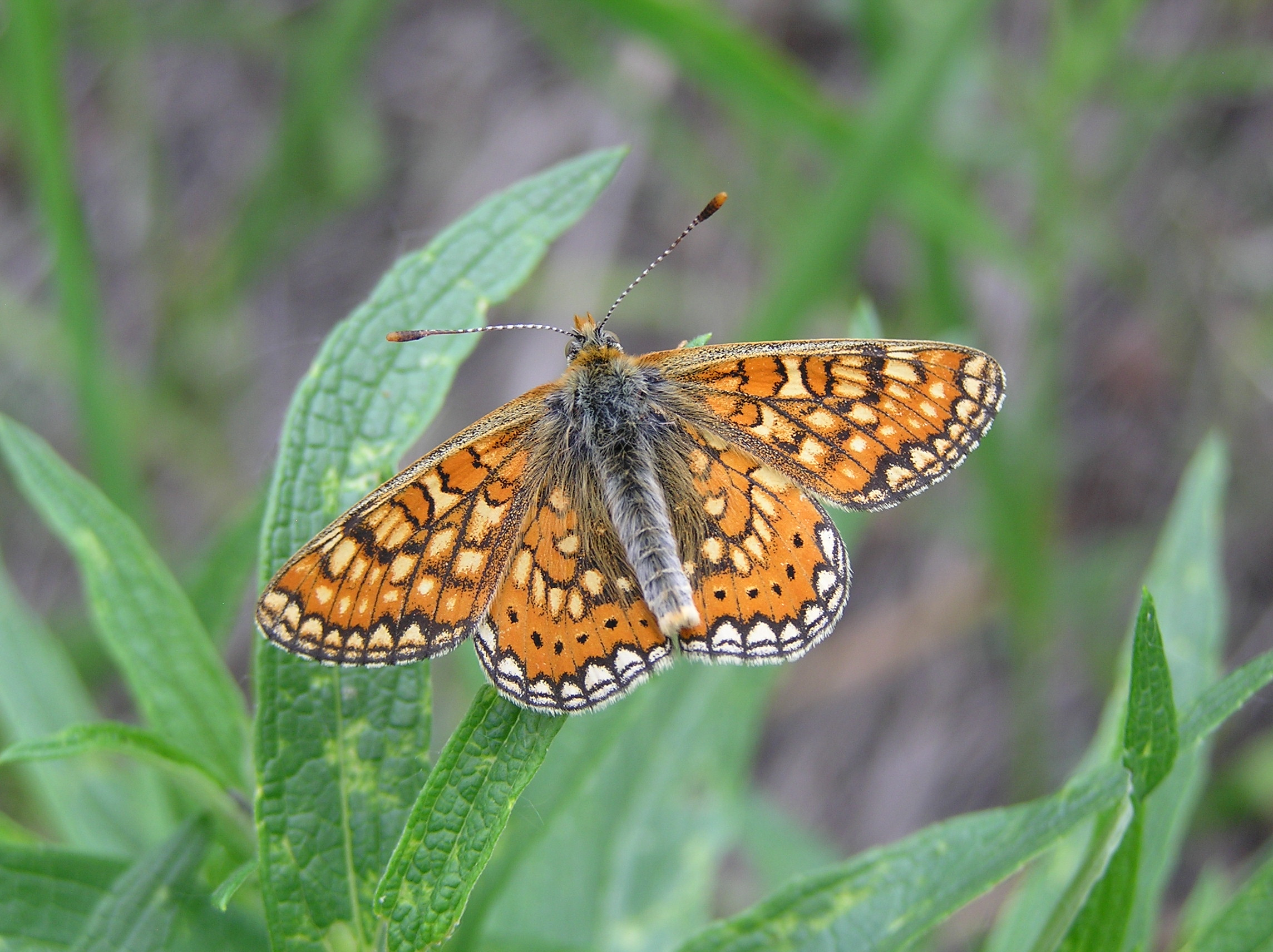 A male of Marsh Fritillary (Euphydryas aurinia). Habitat: south facing chalk slope with xerophile vegetation. The vicinity of Saratov city, Russia.